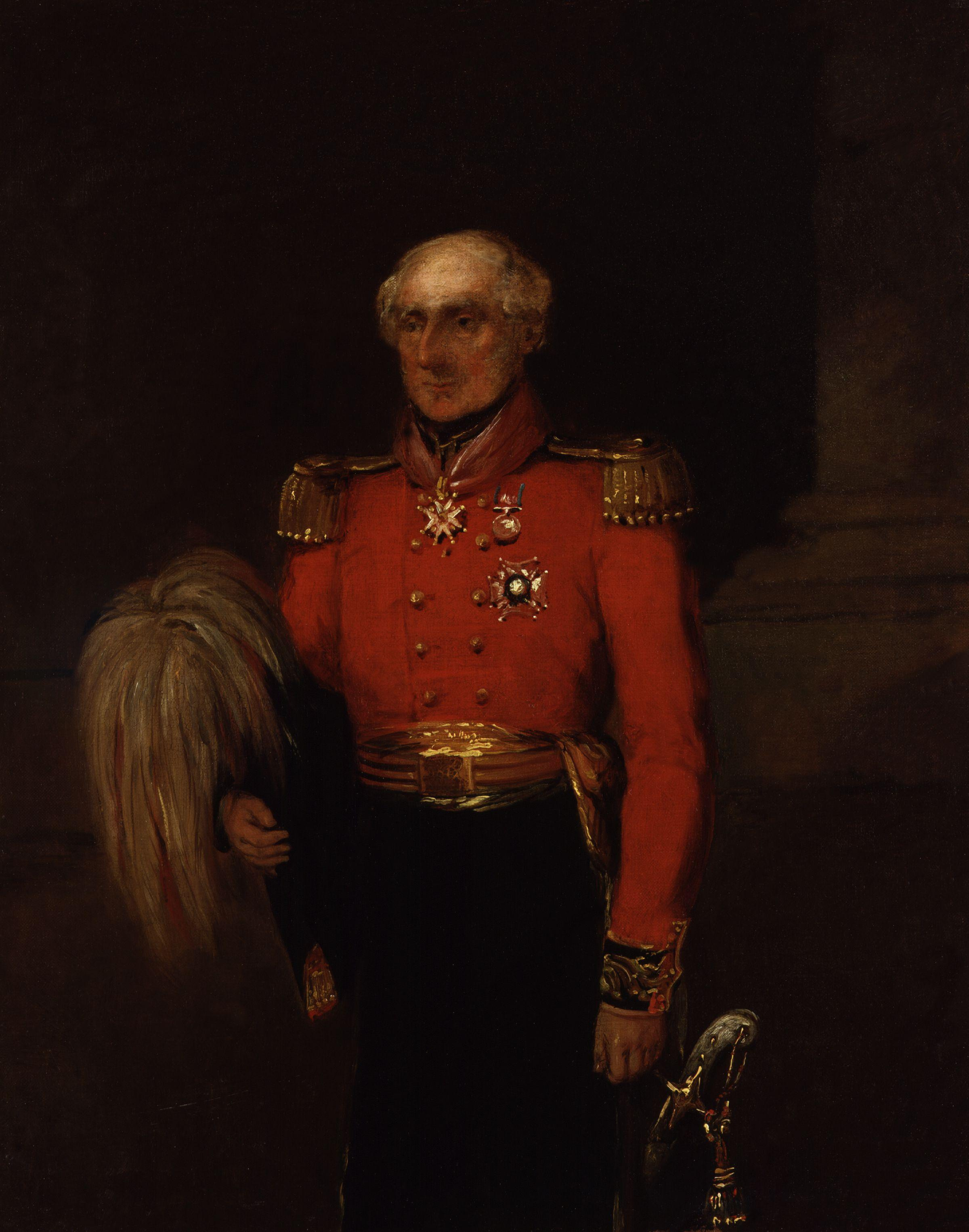 All images in this batch have been confirmed as author died before 1939 according to the official death date listed by the NPG.